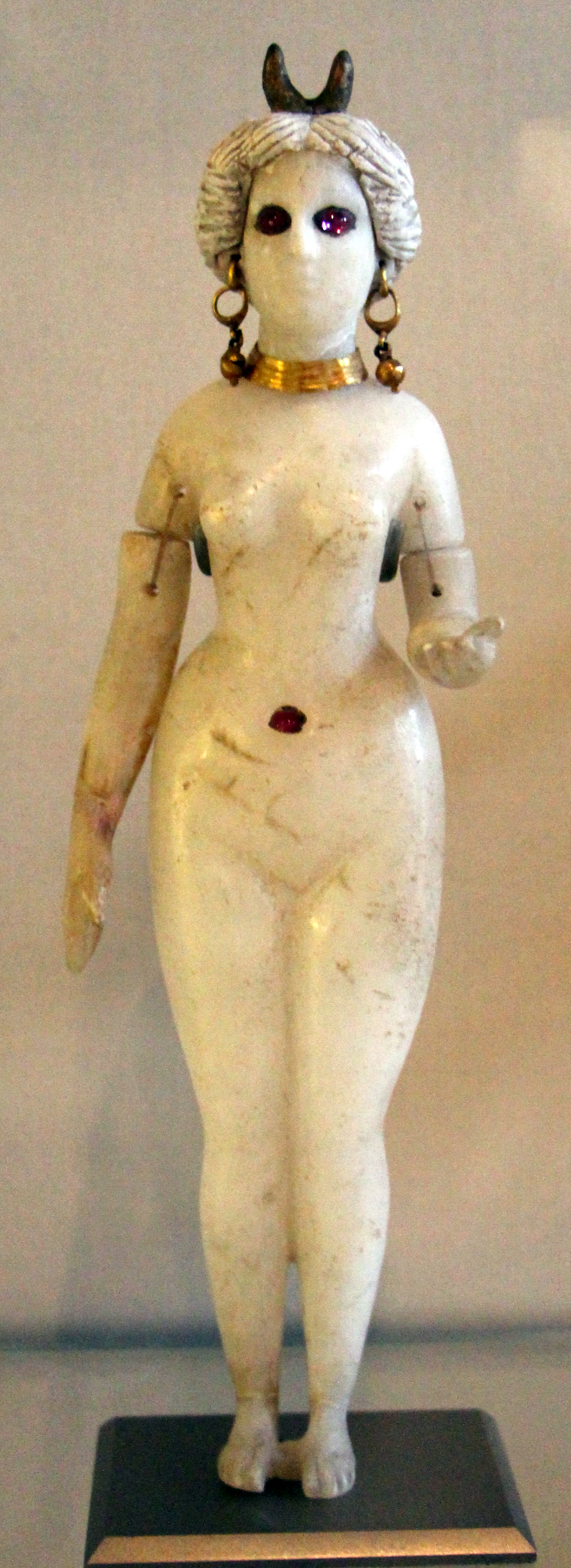 Near Eastern Antiquities in the Louvre